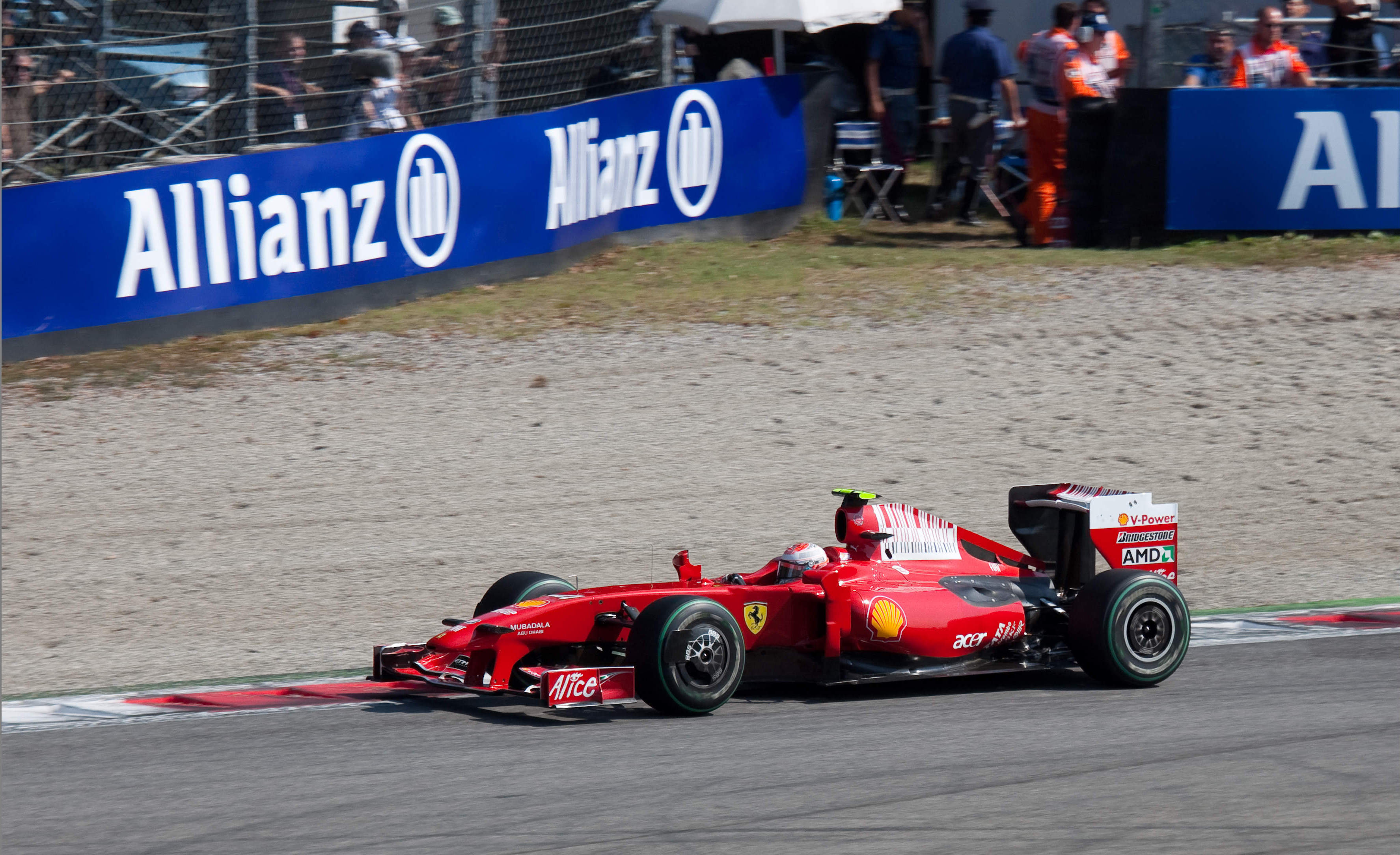 Kimi Räikkönen driving for Scuderia Ferrari at the 2009 Italian Grand Prix.